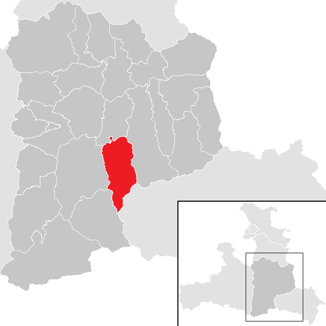 District Sankt Johann im Pongau